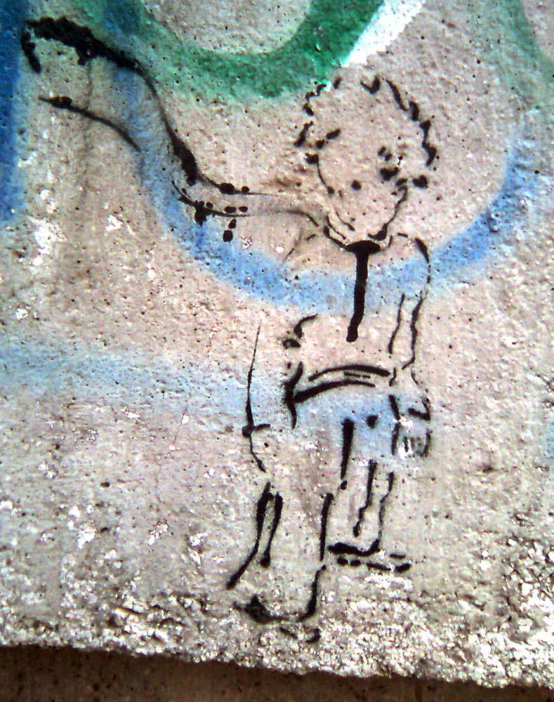 Stencil near New bridge (Novy most) in Old Town (Stare Mesto) in Bratislava.